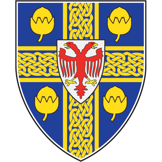 Coat of arms of Leskovac